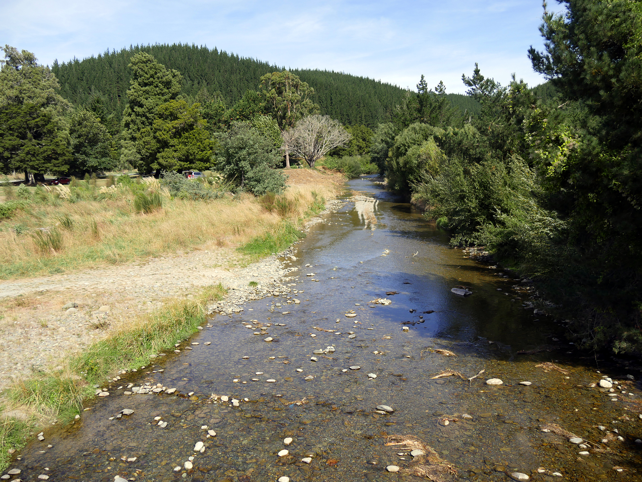 Wai-iti River, Tasman District, South Island, New Zealand (view from New Zealand State Highway 6, bridge 1500, to south)